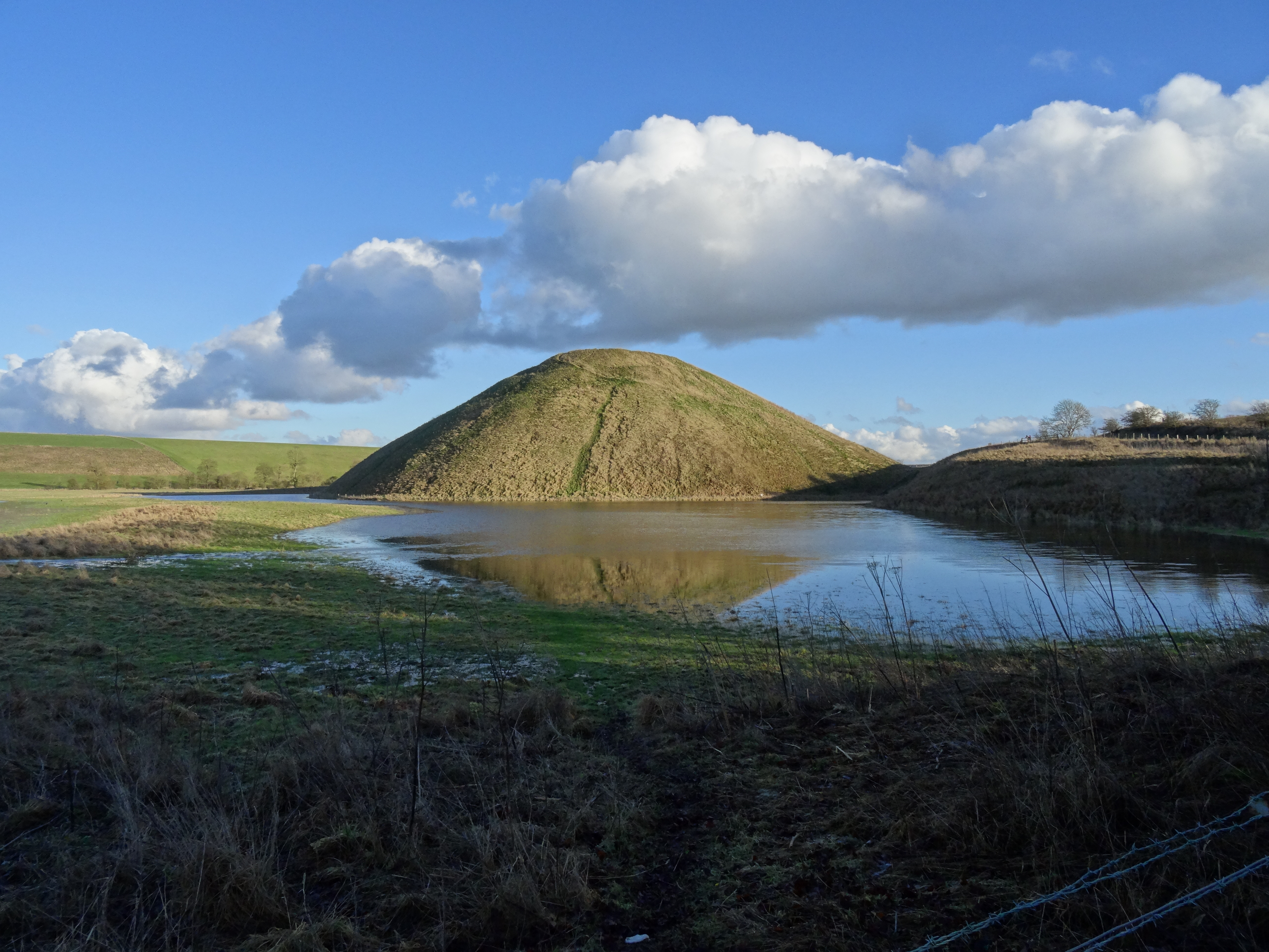 Photograph of the prehistoric monument of Silbury Hill following heavy rain storms that had filled its surrounding ditch